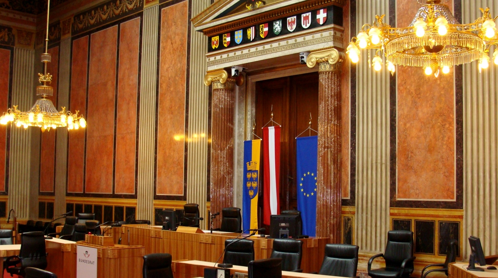 The Assembly of the Federal Council of the Parliament of the Federal Republic of Austria